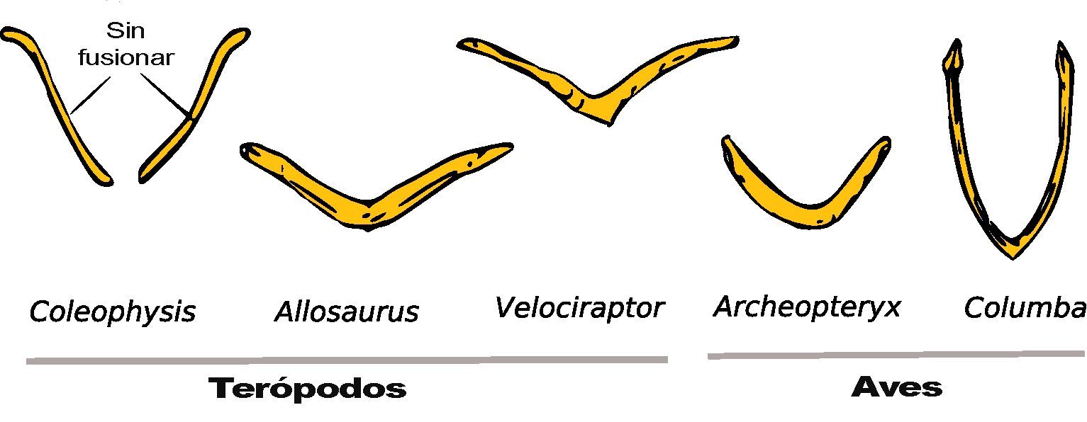 Furcula evolution in dinosaurs and birds